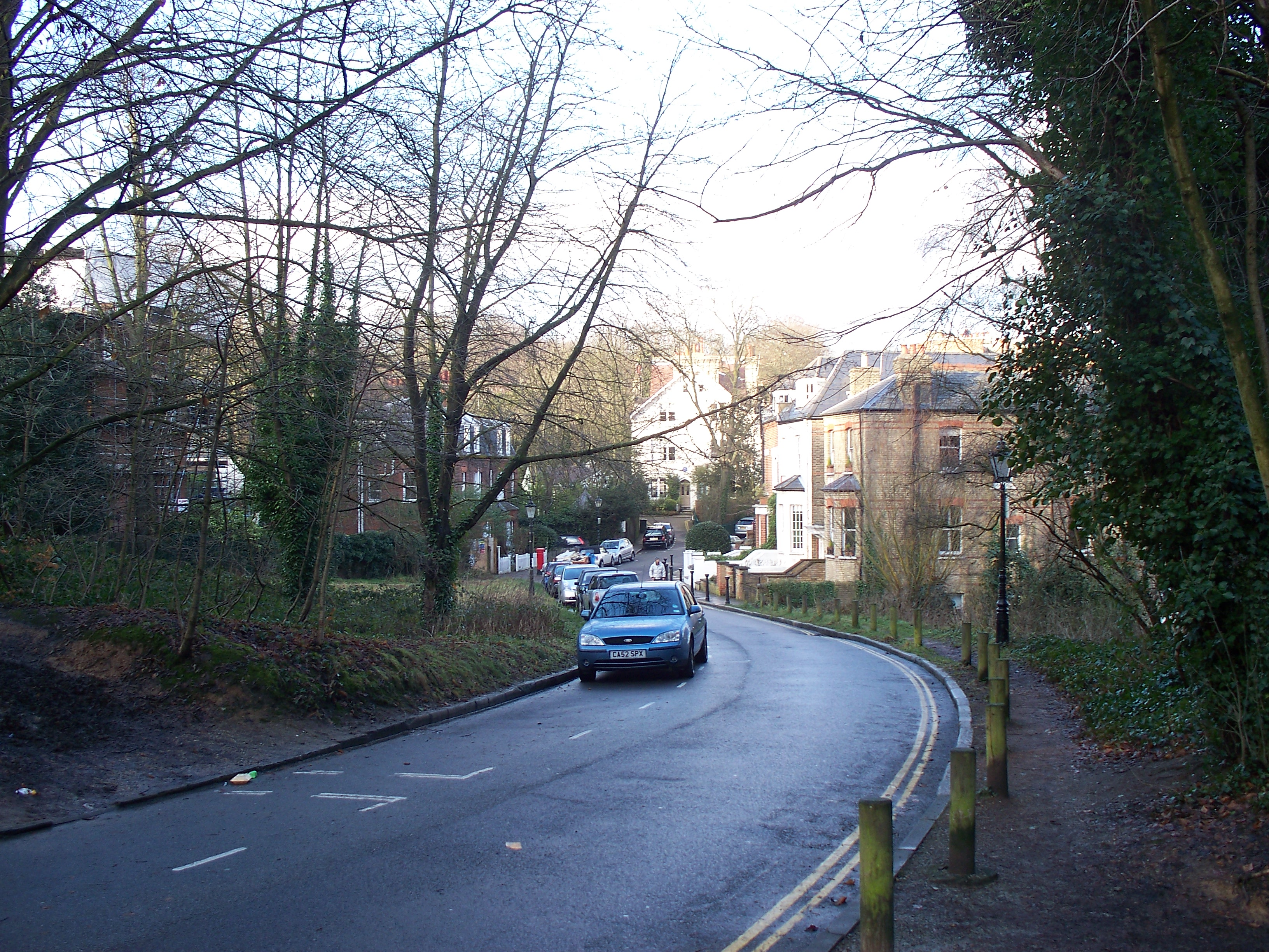 Vale of Health, London NW3. Photograph taken in a public location in the UK of a building on permanent public display, and exempt from copyright under Section 62 of the Copyright Designs & Patents Act 1988 ("it is not an infringement of copyright to film, photograph, broadcast or make a graphic image of a building, sculpture, models for buildings or work of artistic craftsmanship if that work is permanently situated in a public place or in premises open to the public")